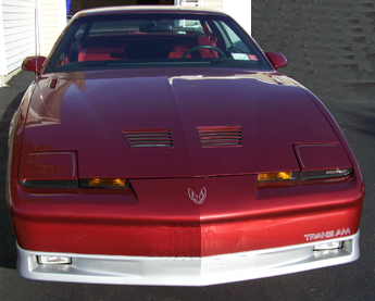 Trans Am 1985-1988 front